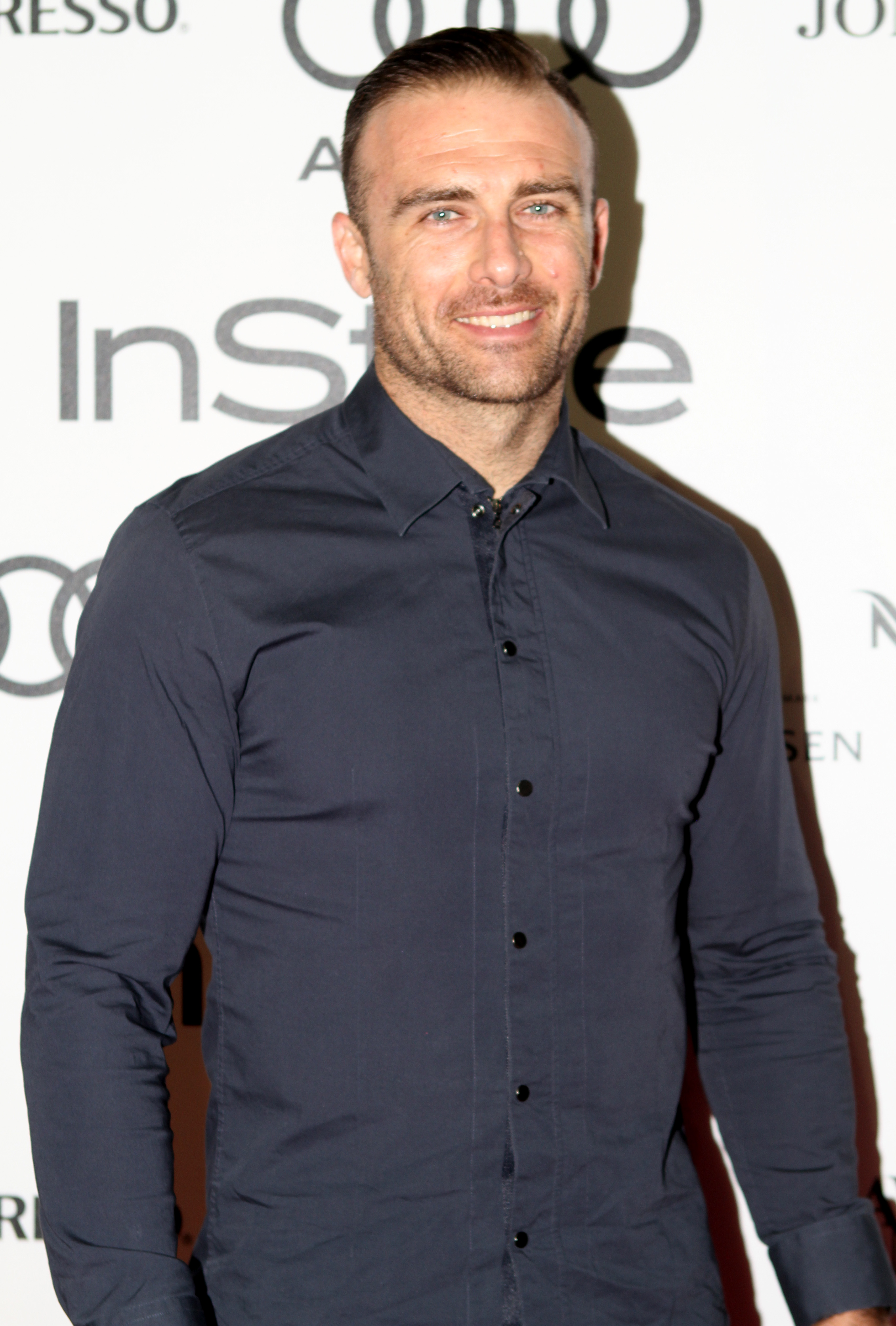 Instyle Awards 2015 InStyle and Audi Host Seventh Annual Woman Of Style Awards Red Carpet Gala Event